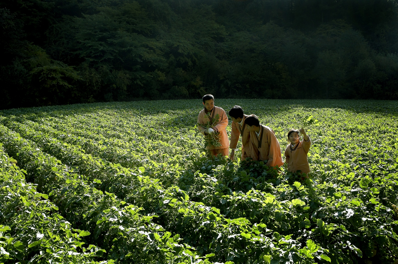 Woljeong temple templestay 1